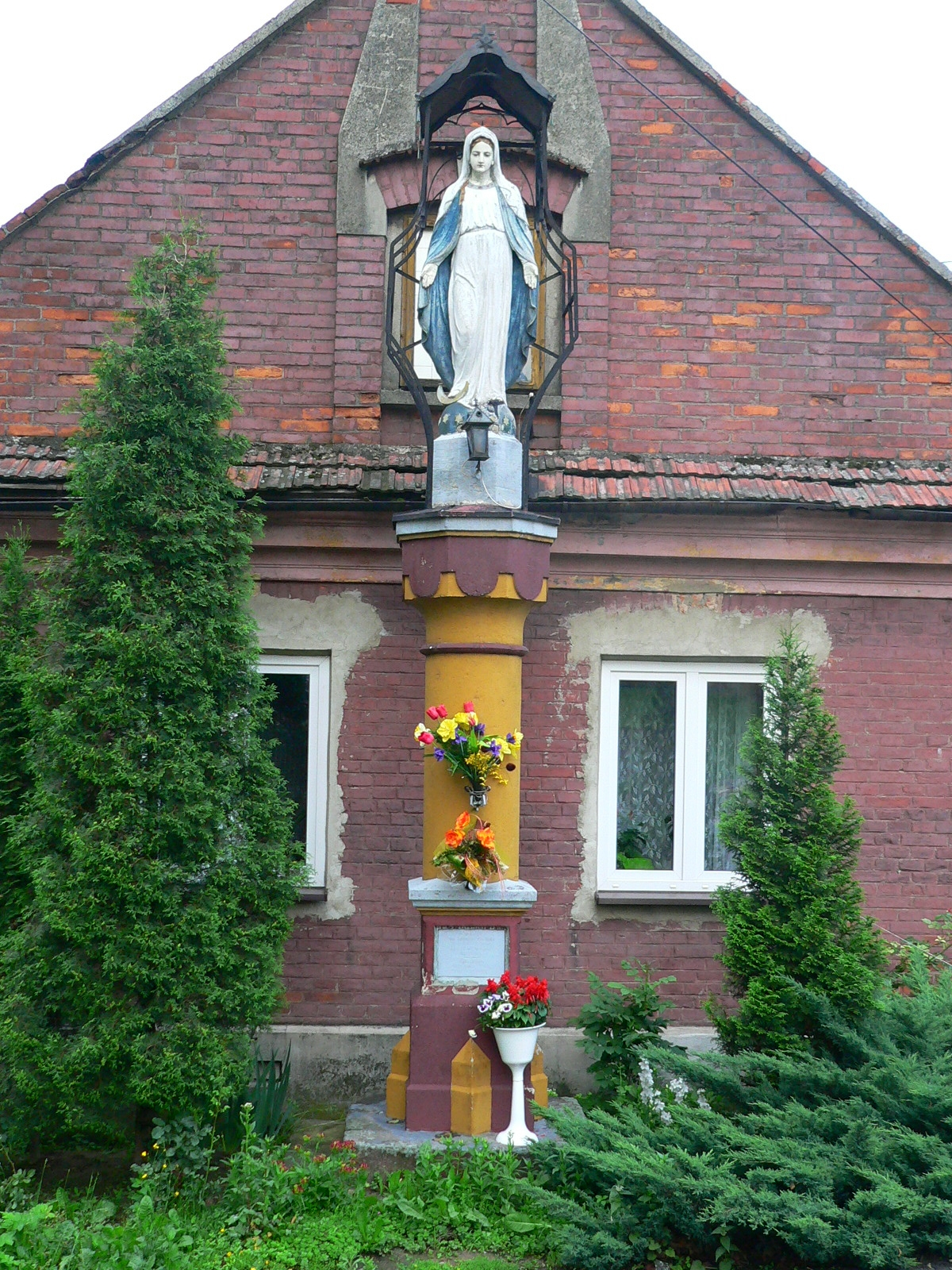 The Holy Virgin Immaculaty Conceptioned's statue in Podstolice (Poland)